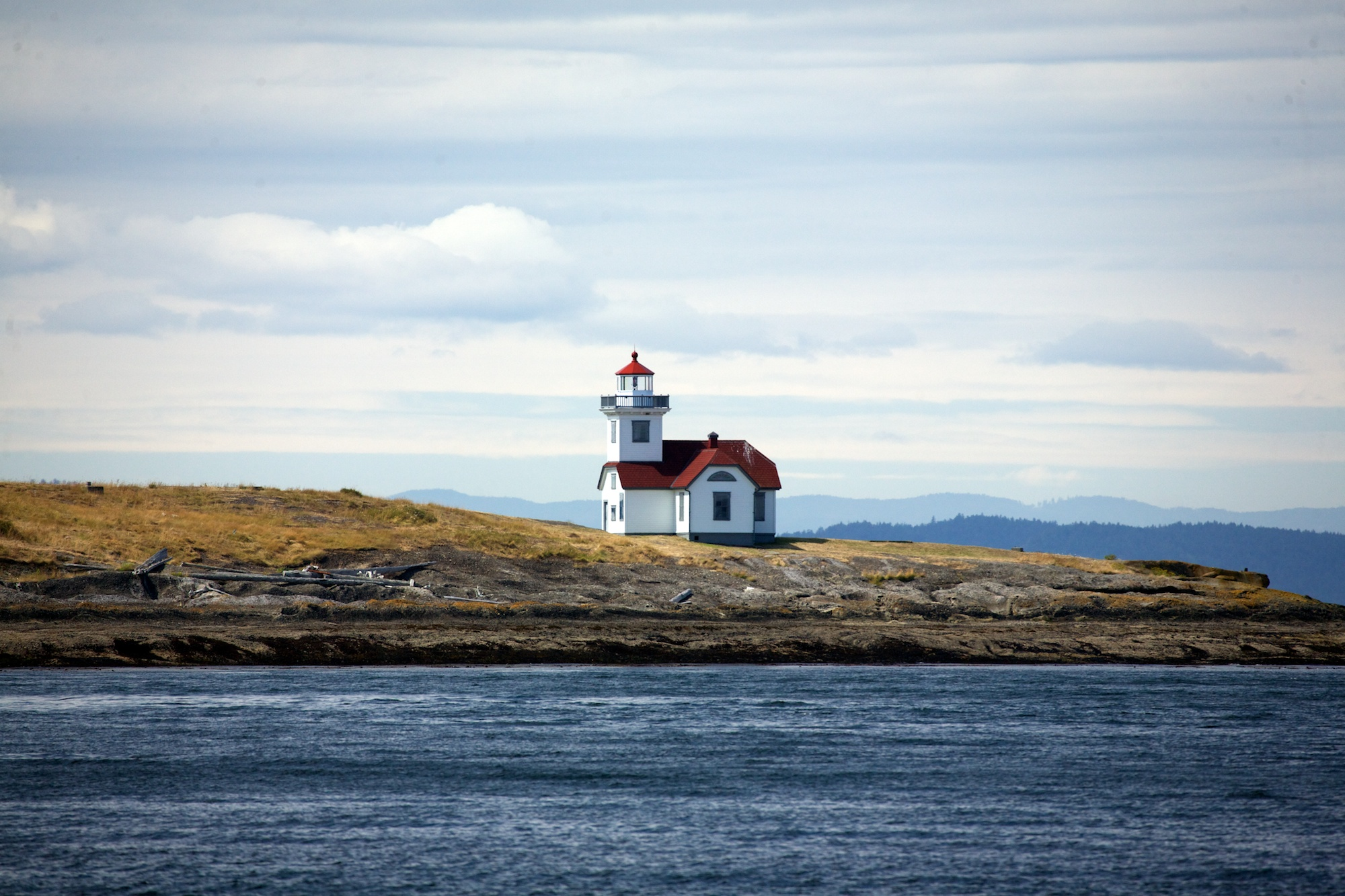 Patos Island Light Station